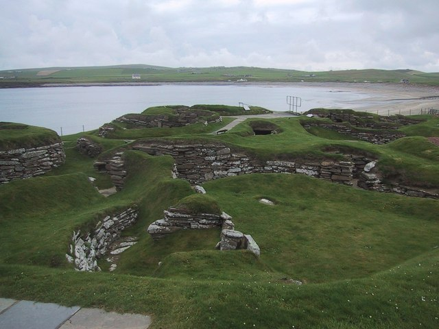 Skara Brae